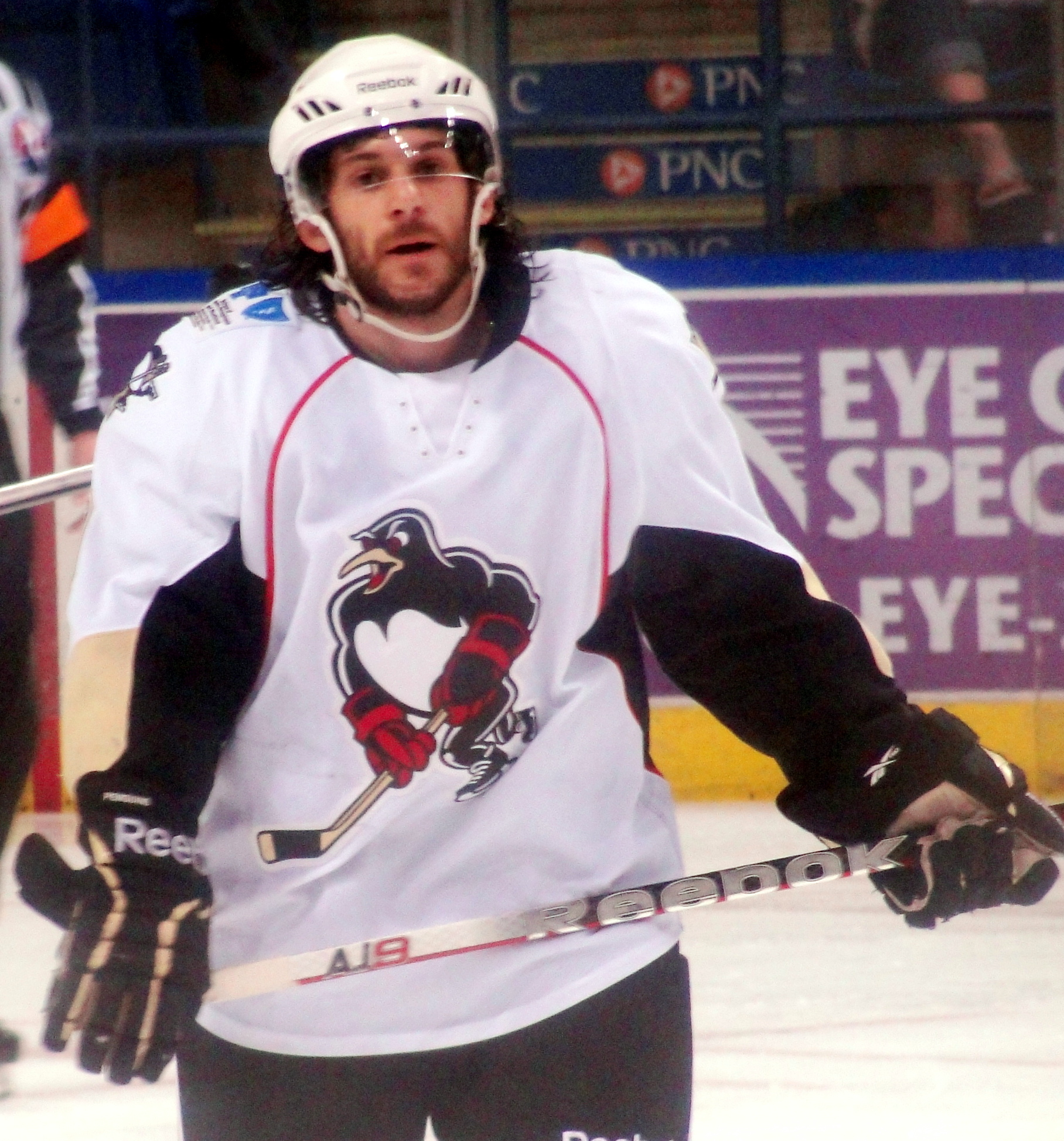 Wilkes-Barre/Scranton Penguins center Brian Gibbons during a AHL Calder Cup Playoffs second round game against the St. John's IceCaps, May 5, 2012 at Mohegan Sun Arena at Casey Plaze in Wilkes-Barre, PA.